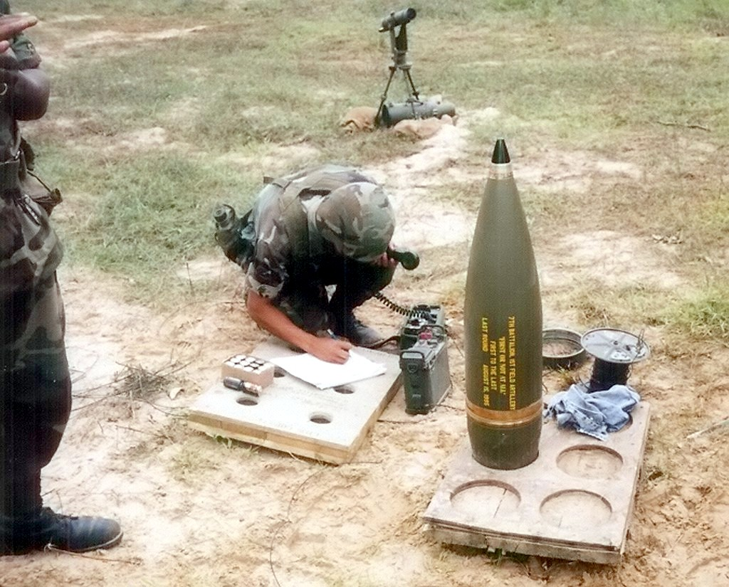 C BTRY 7th BN 1st FA USAR @ Ft. McCoy, WI Last 8 Inch Round Fired prior to unit deactivation 15AUG1995 from M110A1 - Public Domain Image